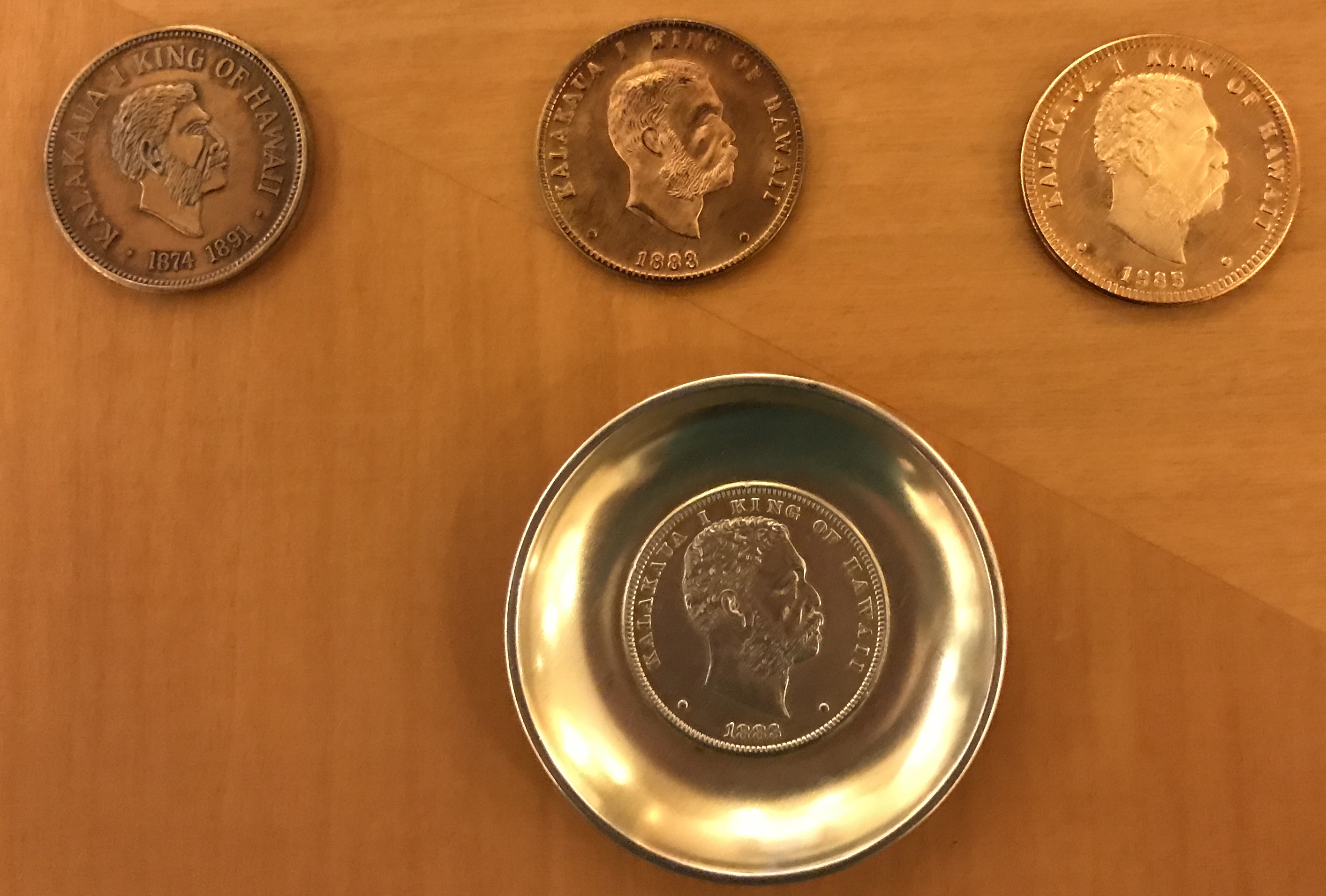 Three replica Hawaiian dollars together with a genuine one in a dish.